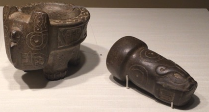 Stone Mortar Pestle, Pacopampa(BC900-BC500). At Special Exhibition: Ancient Civilization of the Andes (2017, Tokyo).